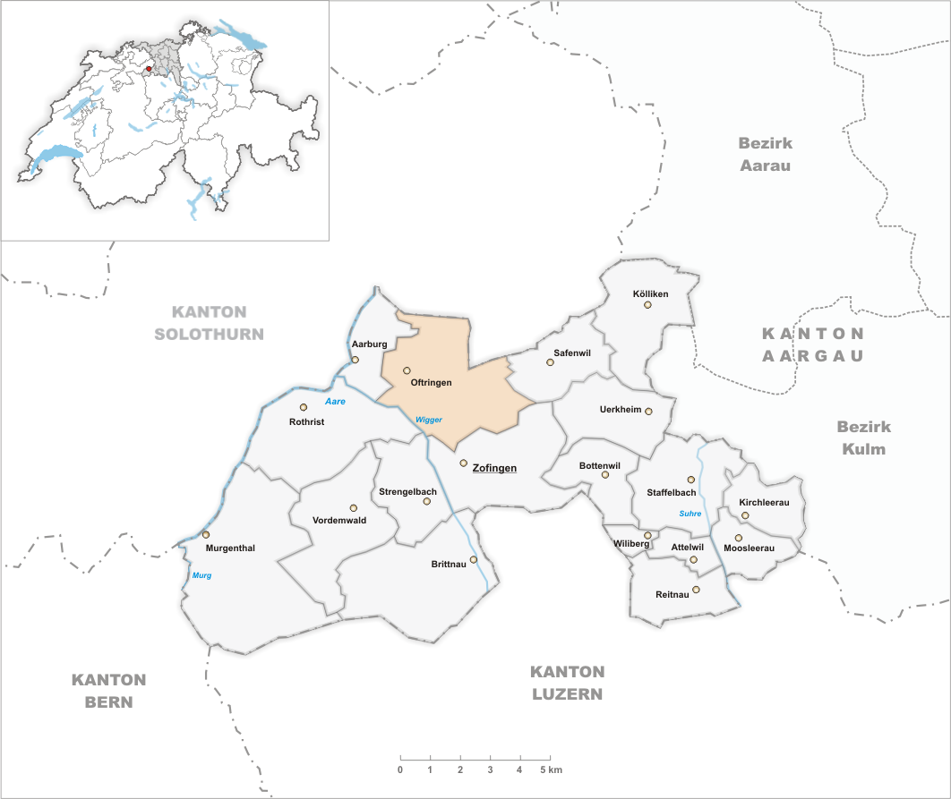 Municipality Oftringen